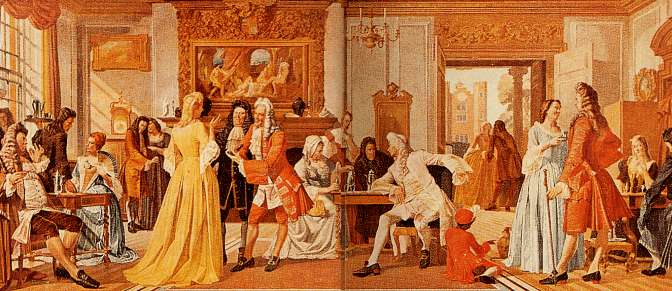 White's Chocolate House, London